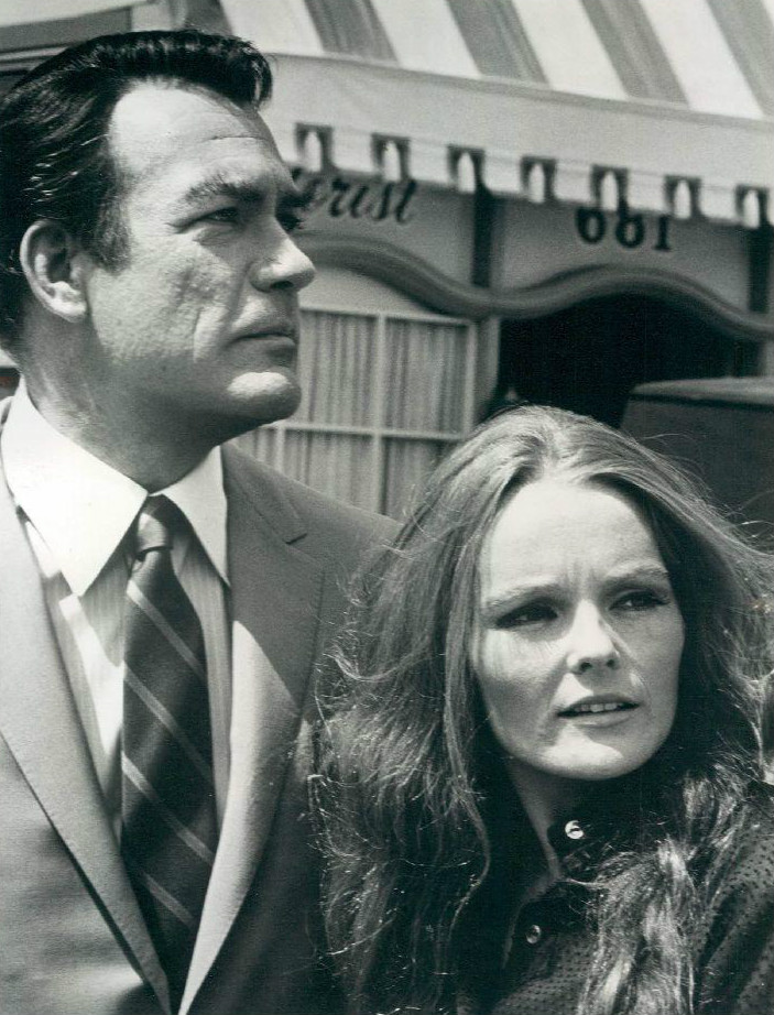 Photo of Carl Betz and guest star Katharine Houghton from the television program Judd for the Defense.